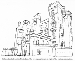 Killeen Castle, County Meath, Ireland showing a view from the North East